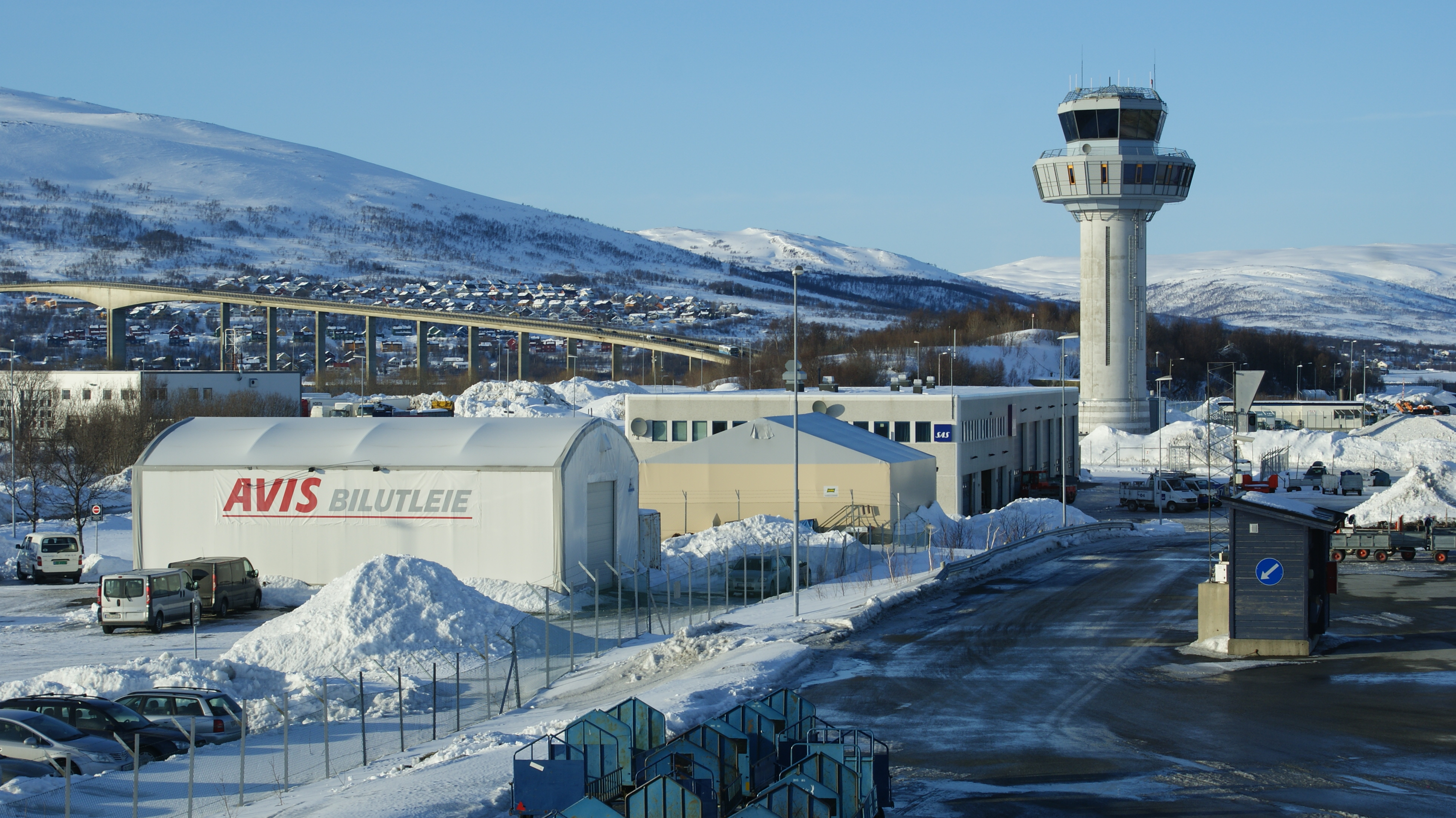 Tromsø Airport, Troms, Norway. ATC tower.